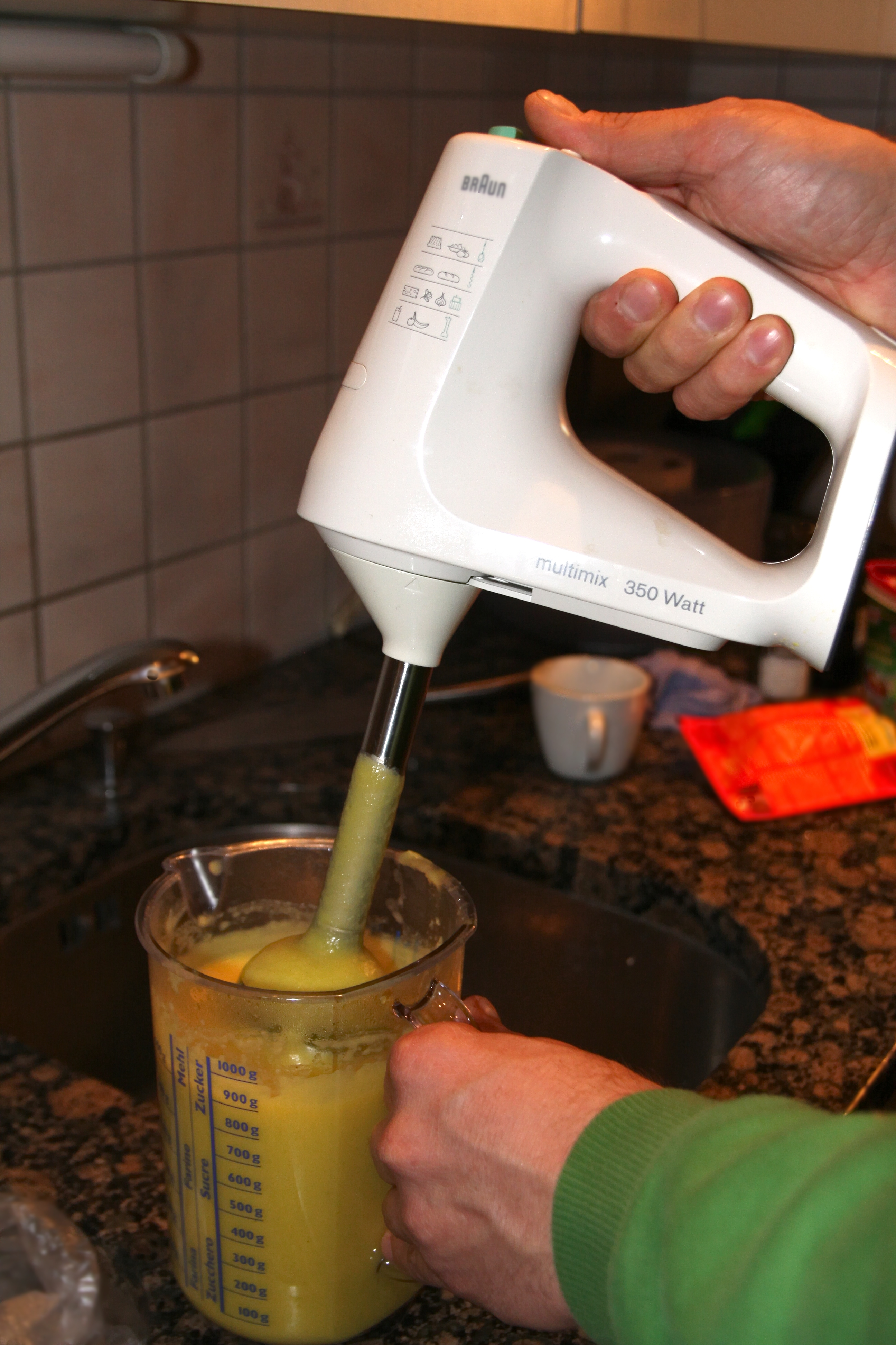 Pureeing